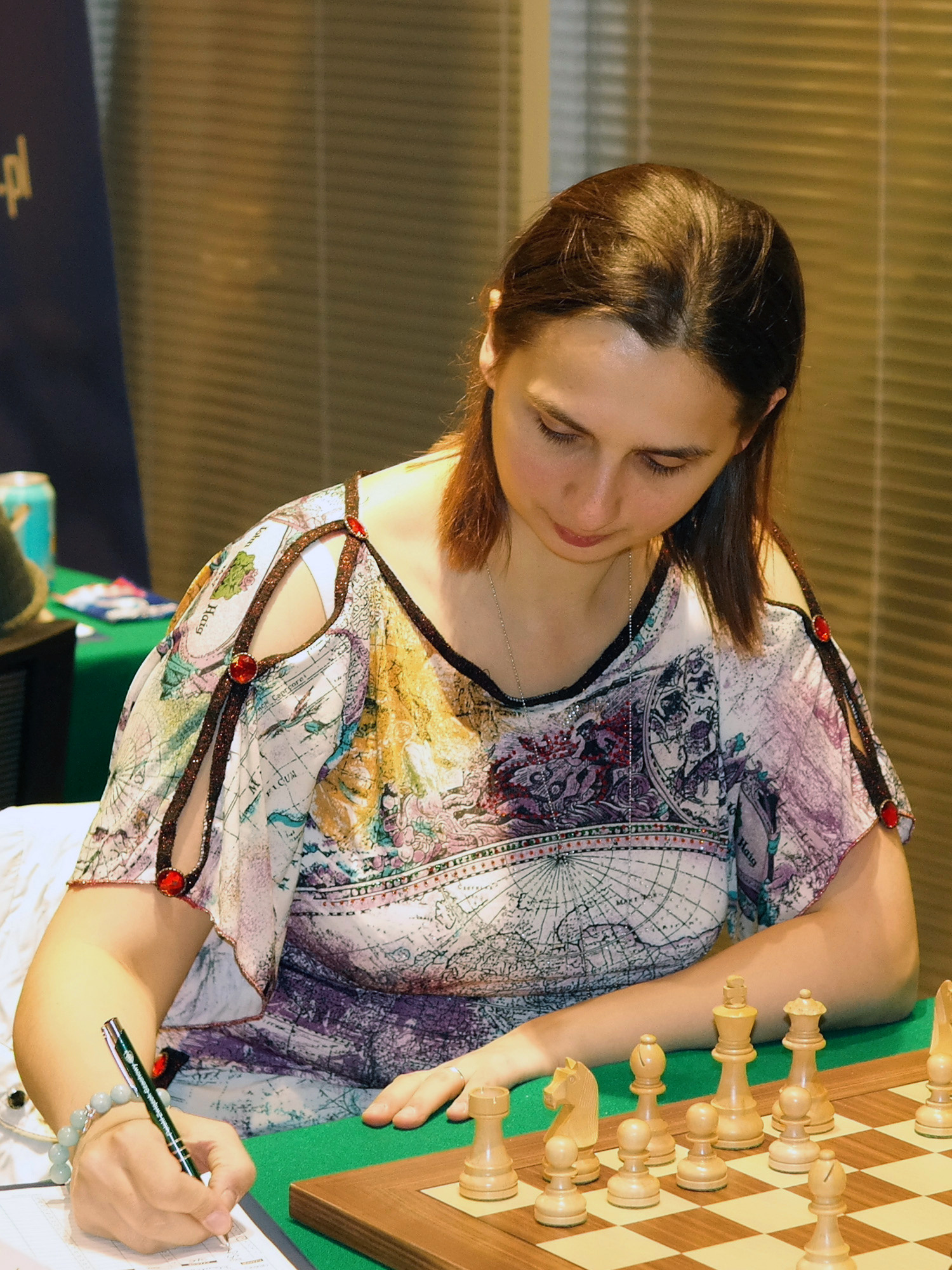 IM Iweta Rajlich, Polish Chess Championship, Warsaw 2014